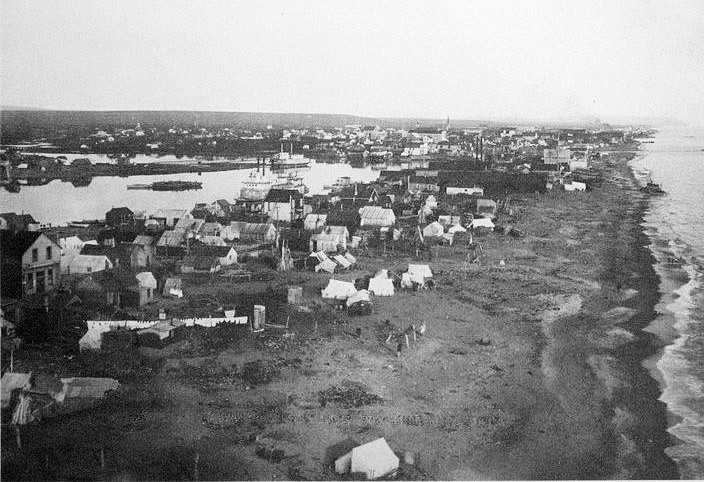 View of Nome from hot air balloon during gold rush. Some of the sky cut out original photo